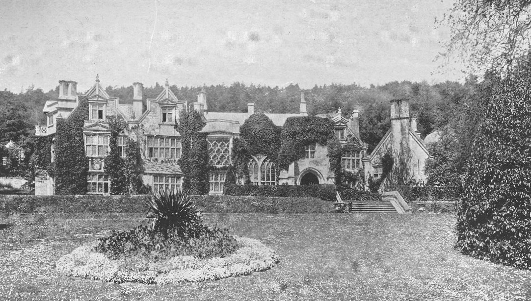 Clevedon Court, from a 1922 Ward Lock guidebook to Clevedon.